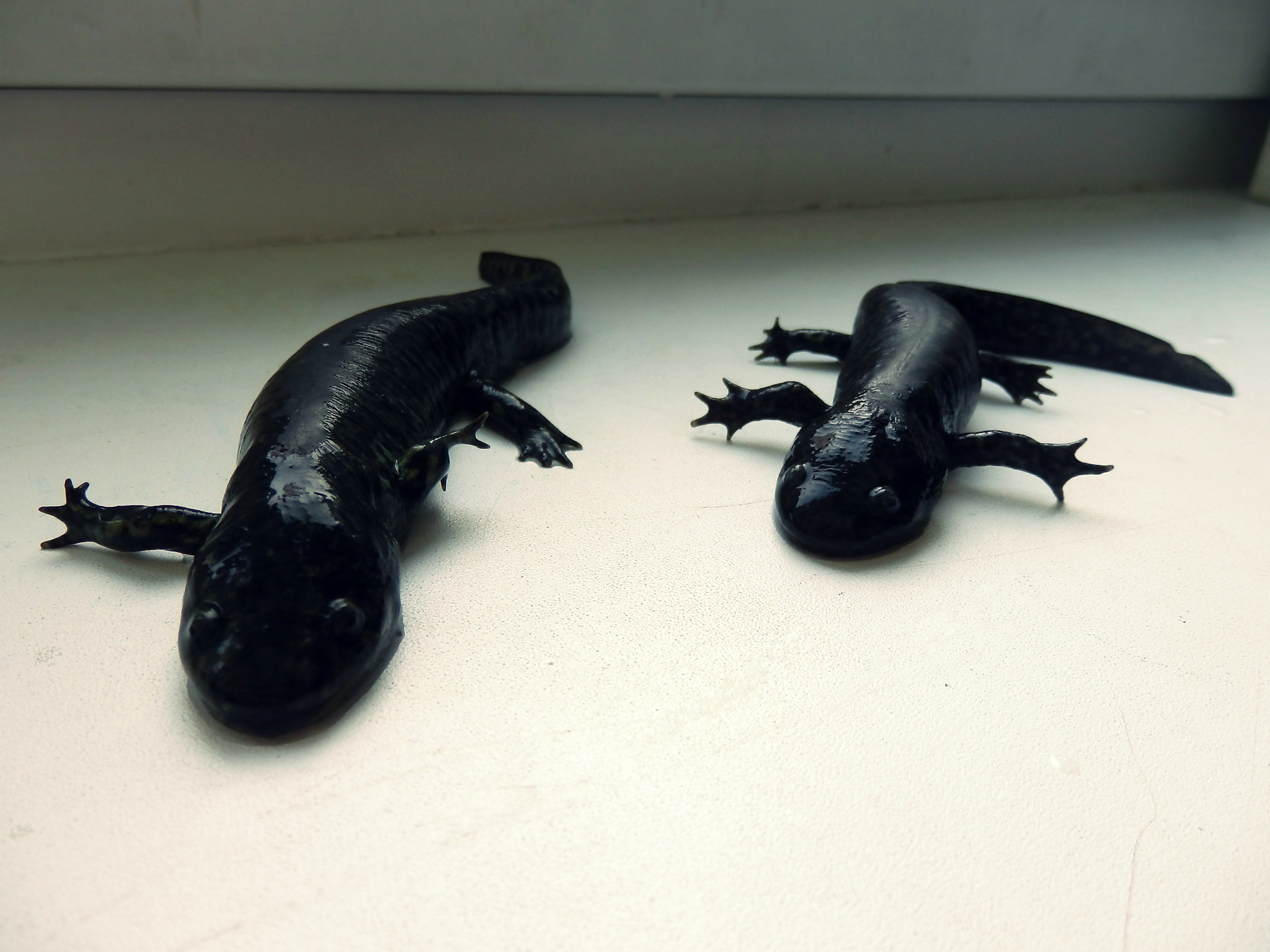 by Regina Kolyanovska